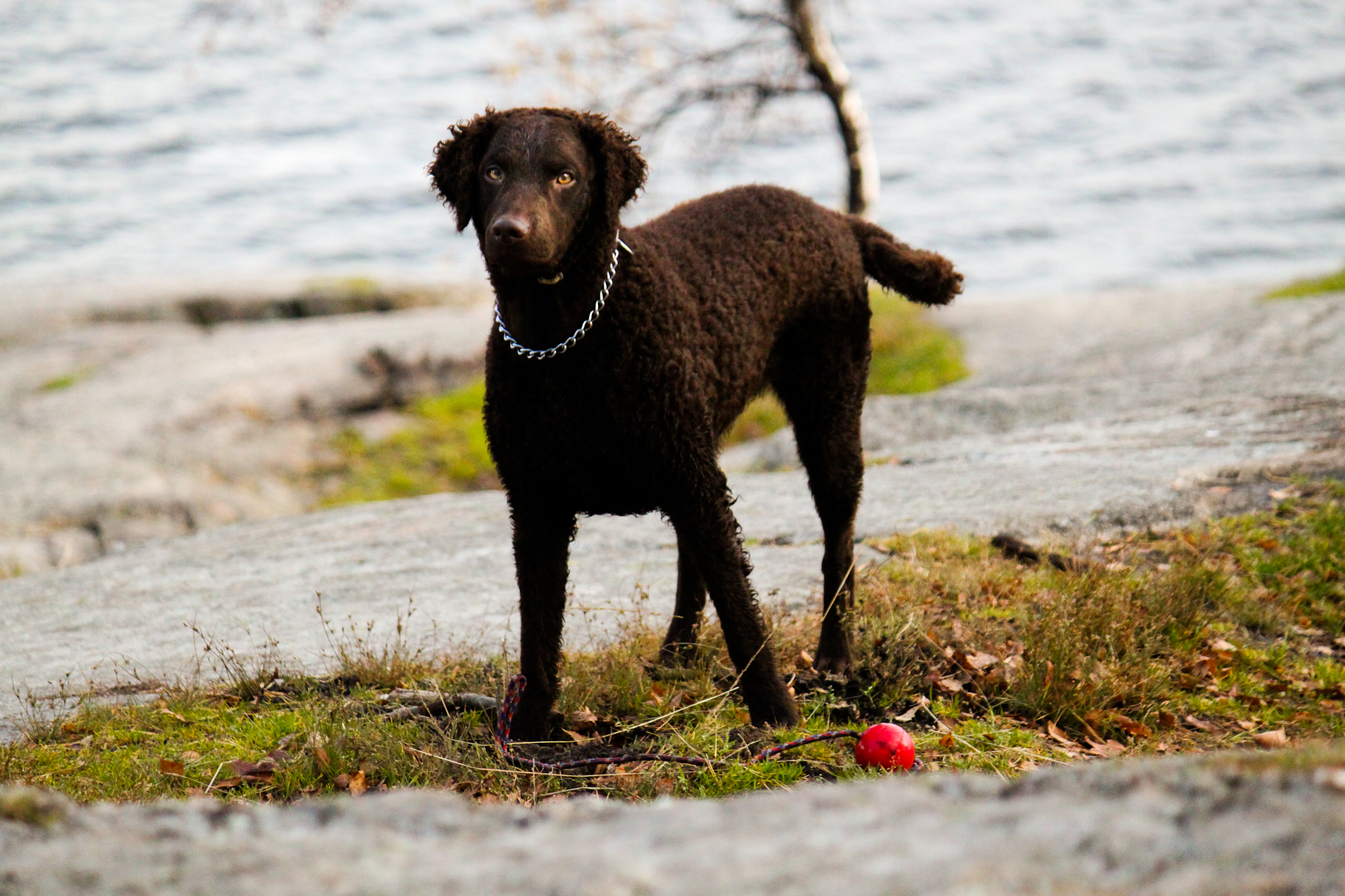 Curly Coated Retriever